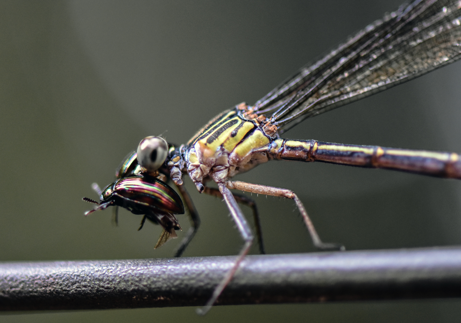 Thumbi from kerala